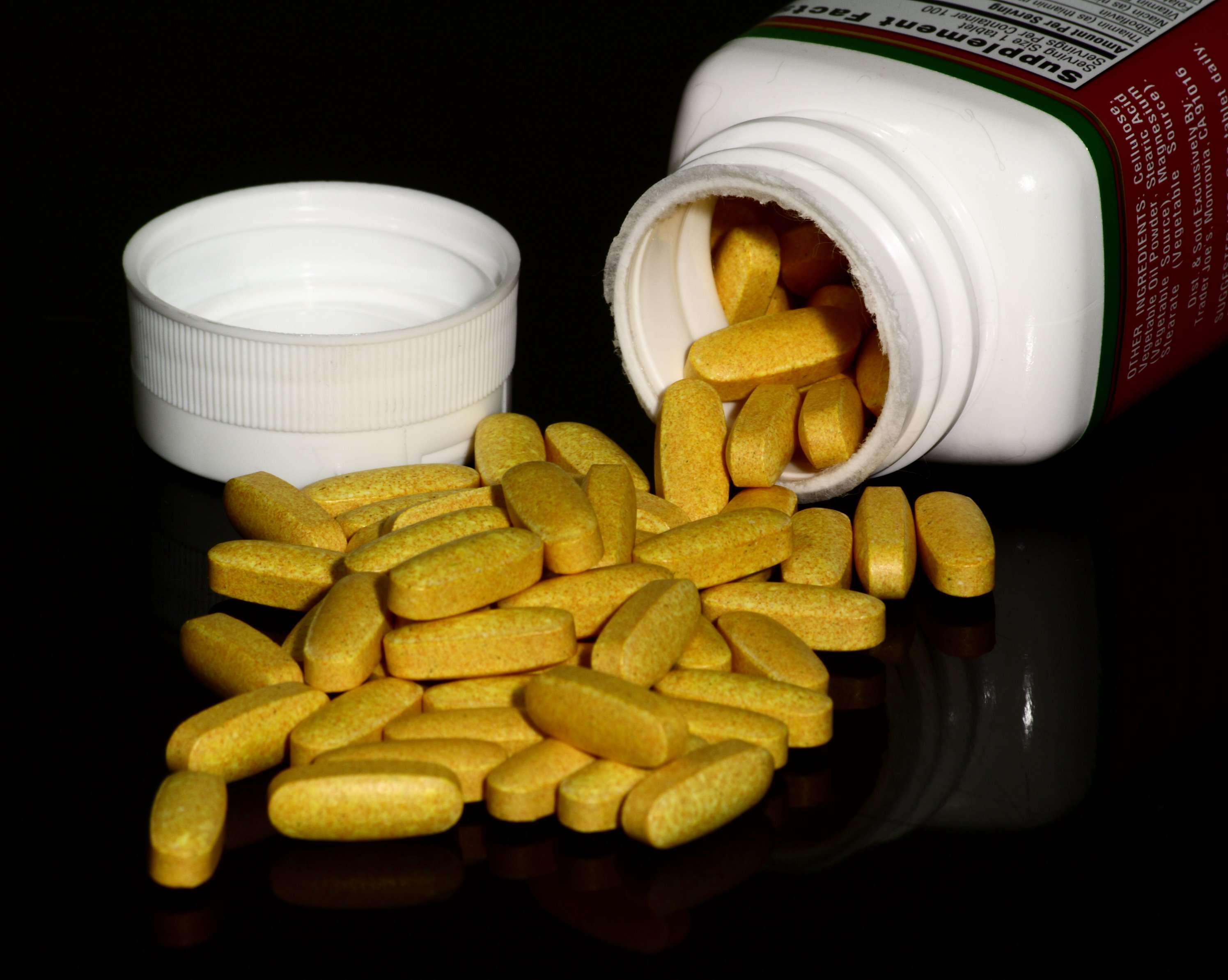 Sustained Release High Potency B "50" Dietary Supplement, B vitamin dietary supplement tablets branded "Trader Darwin's" (sold at Trader Joe's). The tablets each contain 50 mg of thiamin, 50 mg of riboflavin, 50 mg of niacin, 50 mg of vitamin B6, 400 mcg of folate, 50 mcg of biotin, 50 mg of pantothenic acid, and 90 mg of calcium, as well a "Proprietary Blend" of inositol, choline bitartrate, alfalfa powder, parsley powder, rice bran, and watercress powder, in a base of cellulose, vegetable oil powder, stearic acid, and magnesium stearate.